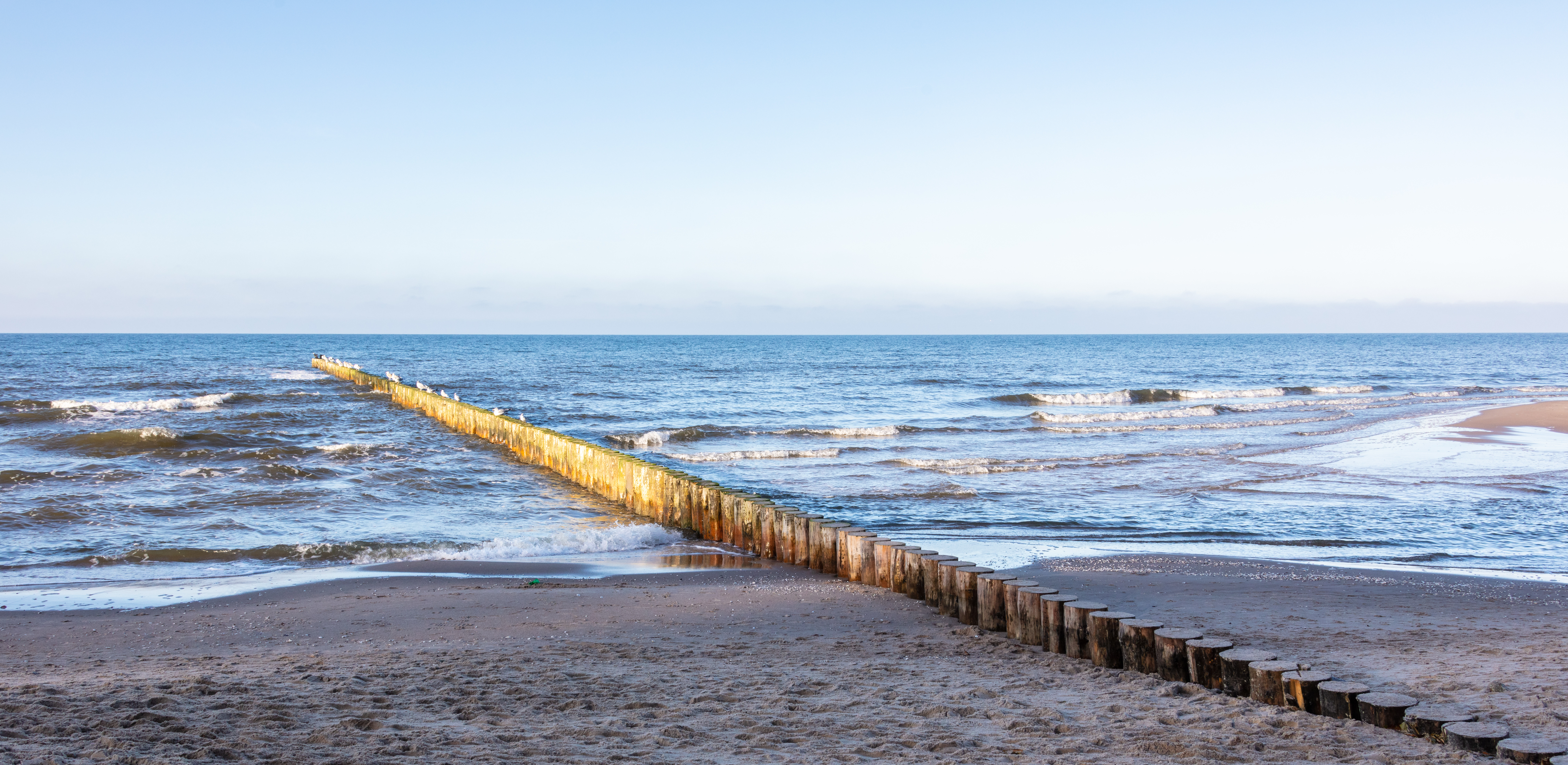 Breakwater, Trzęsacz, Poland